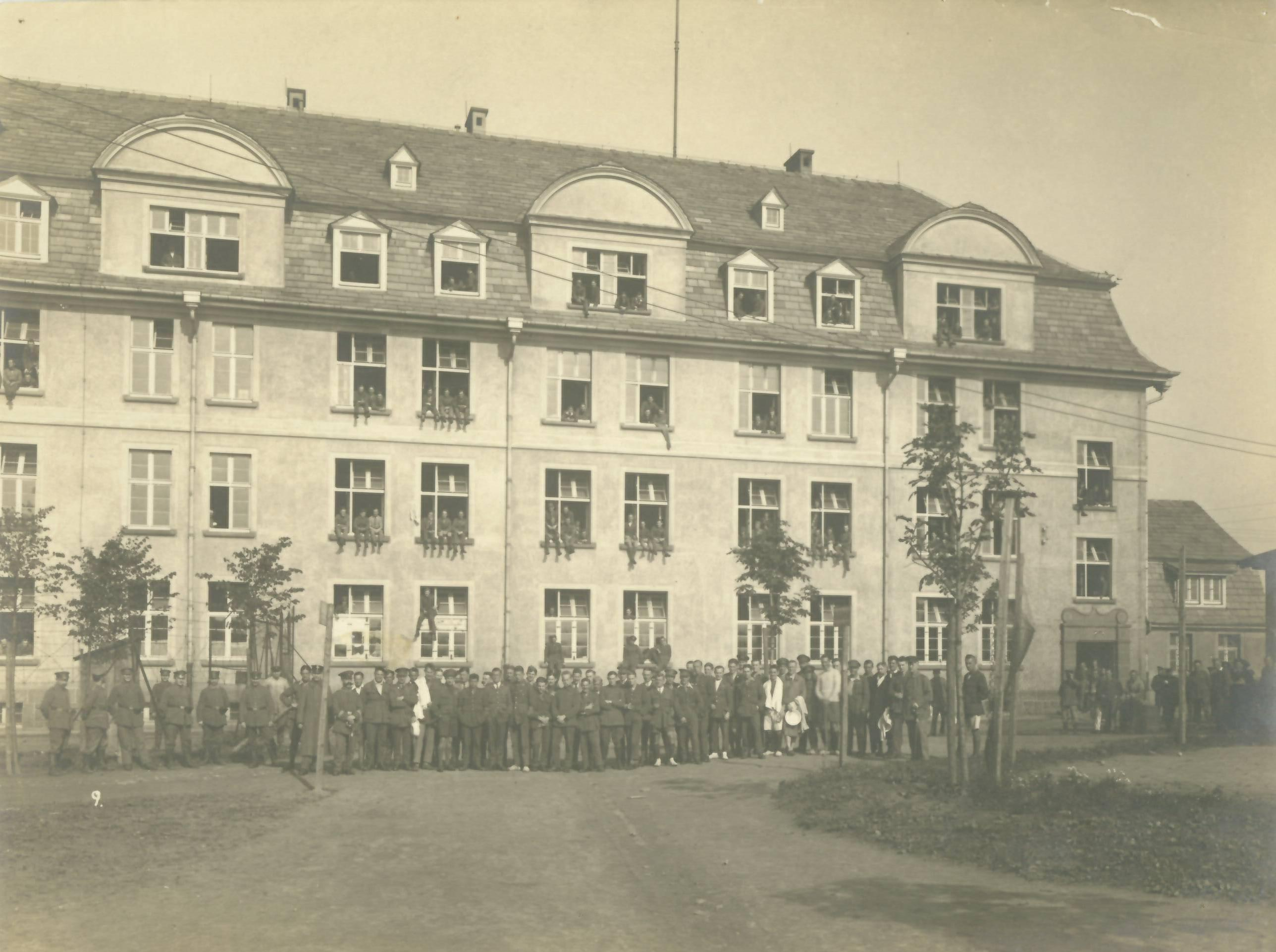 Kazerne B in Holzminden prisoner-of-war camp, with British prisoners and German guards. Late 1918.